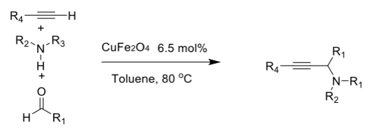 A3 coupling of aldehydes, amine with phenylacetylene. Adapted from the article - Synlett, 2009. 2009(11): p. 1791-1794